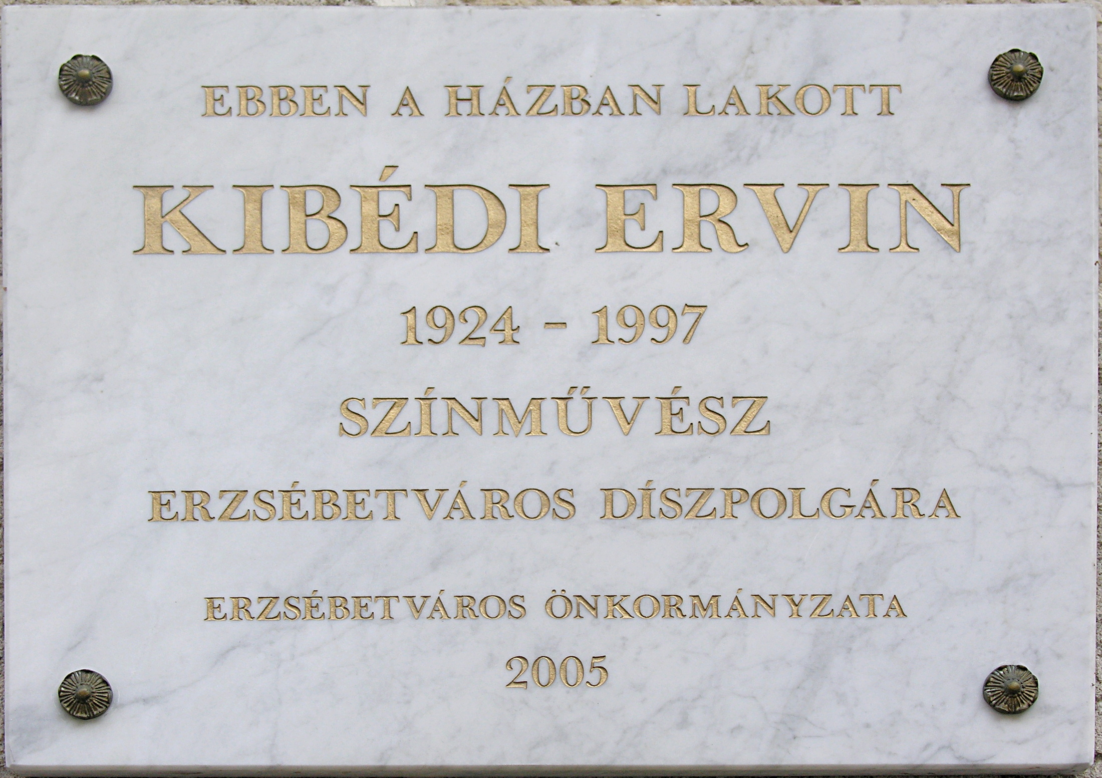 Commemorative plaque of Ervin Kibédi in Budapest District VII, Damjanich Street No 31/a